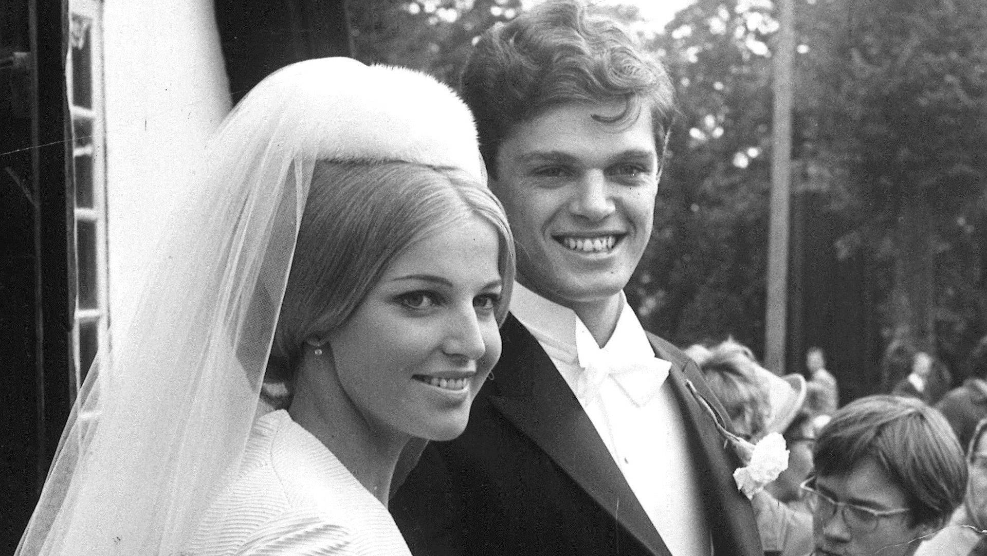 Photograph of Virpi Miettinen and Caesar von Walzel after their wedding ceremony in front of Porvoo Cathedral.